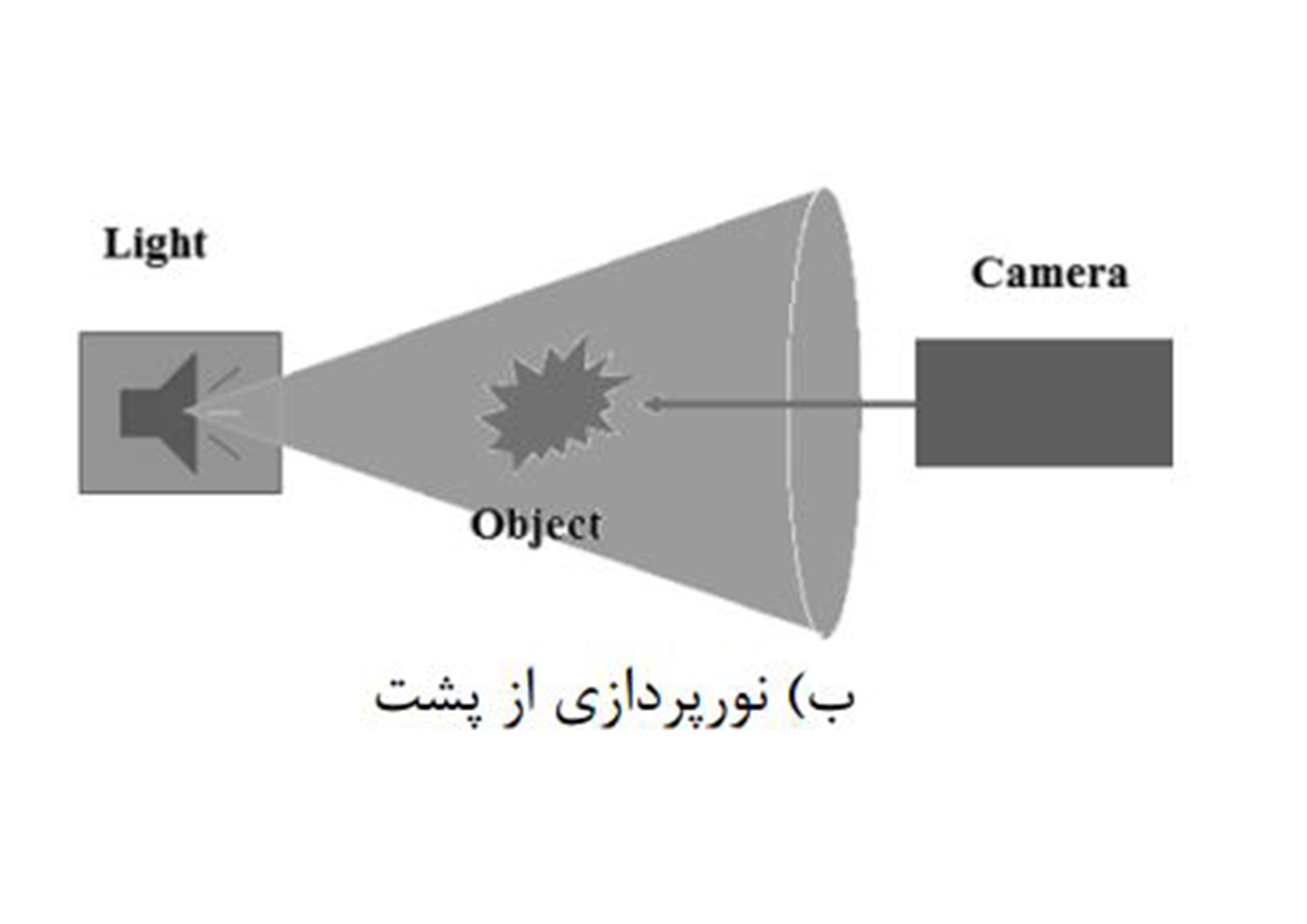 Particle Shadow Velocimetry